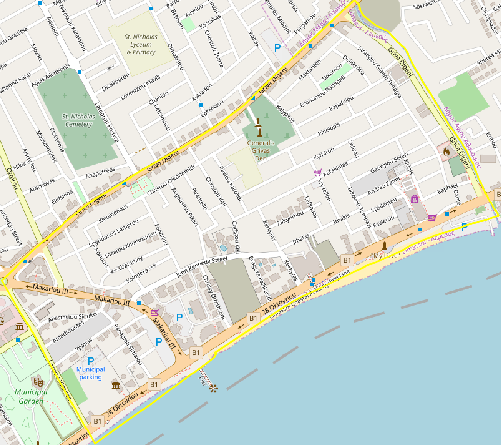 Map of Neapoli.